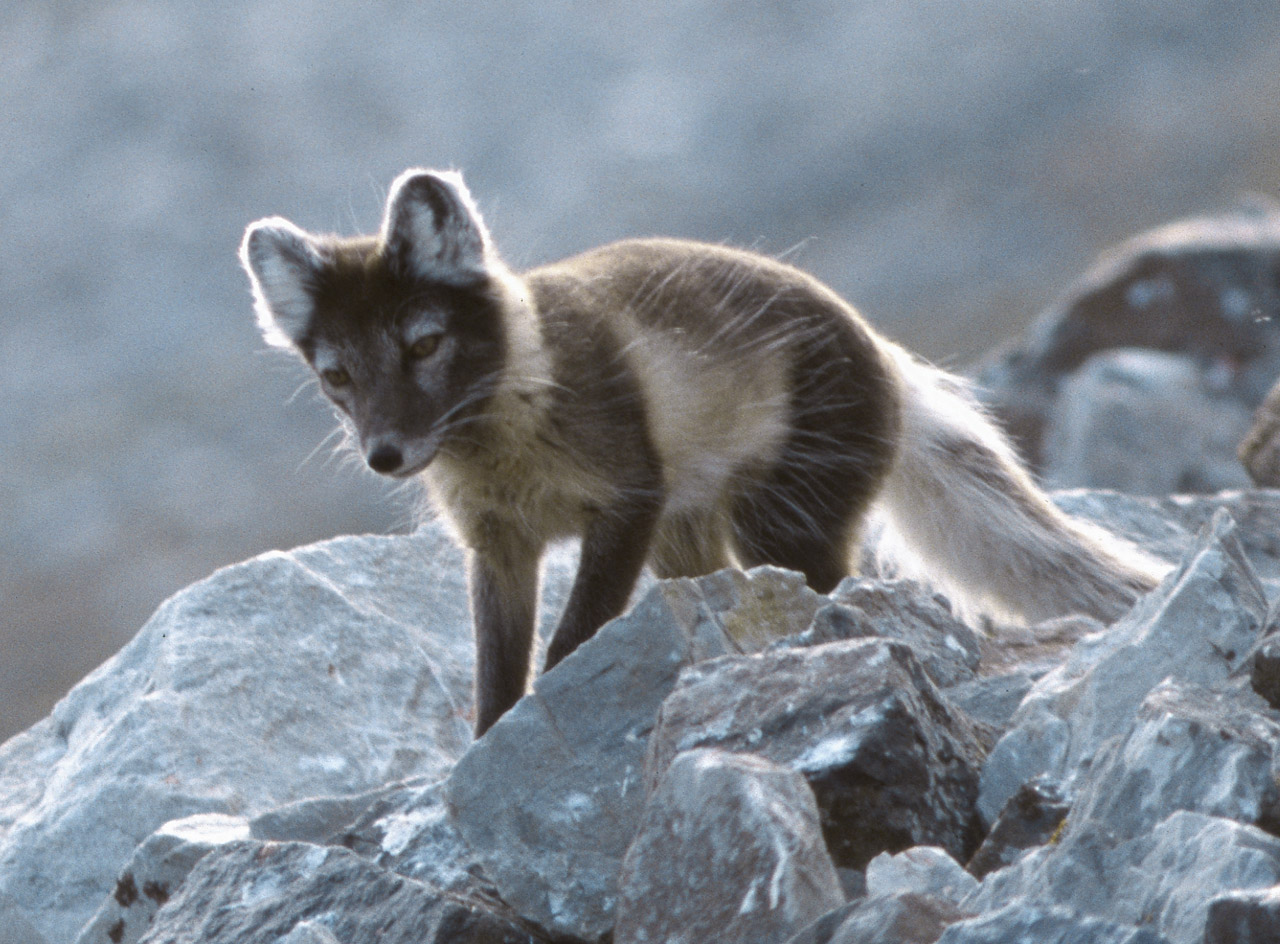 Arctic Fox in summer coat at a bird cliff of Little Auks, looking for eggs and birds, at Bellsund, Svalbard